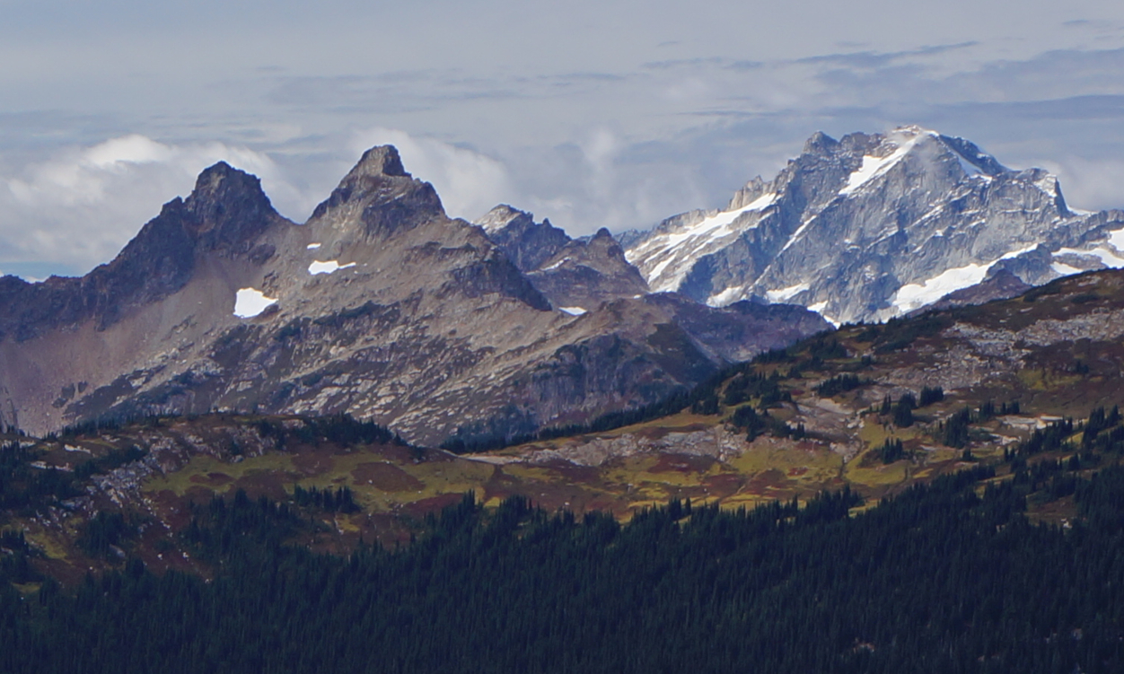 Sitting Bull Mountain and Dome Peak seen from Spider Gap area of Glacier Peak Wilderness in WA state